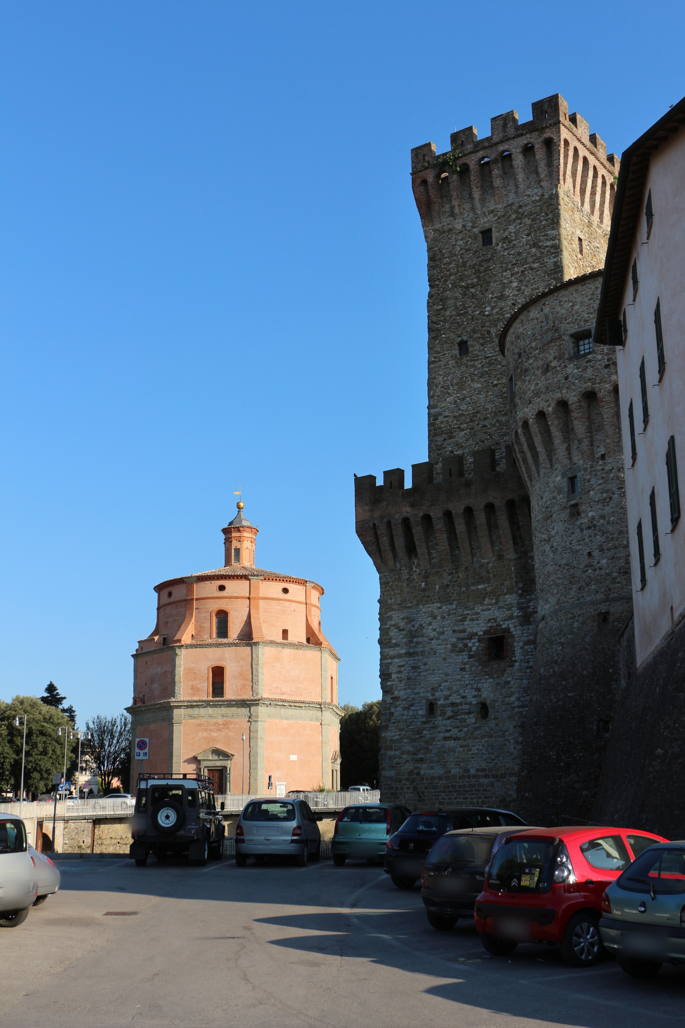 Santa Maria della Reggia (Umbertide)